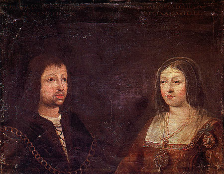 In this portrait the queen can be seen with a necklace very similar to the one described amongst others by H. del Pulgar, and it could be the precious jewel that was given to Isabel when asking for her hand. If it is the same piece, the magnificent twist of gold with rubies and pearls in the form of a tear, we would be seeing the necklace that belonged to Juana Enríquez, mother of Fernando II of Aragon and to other queens of the crown of Aragon. It appears that the portrait was originally done of the whole body and the motives for the mutilation of the canvas are not known.